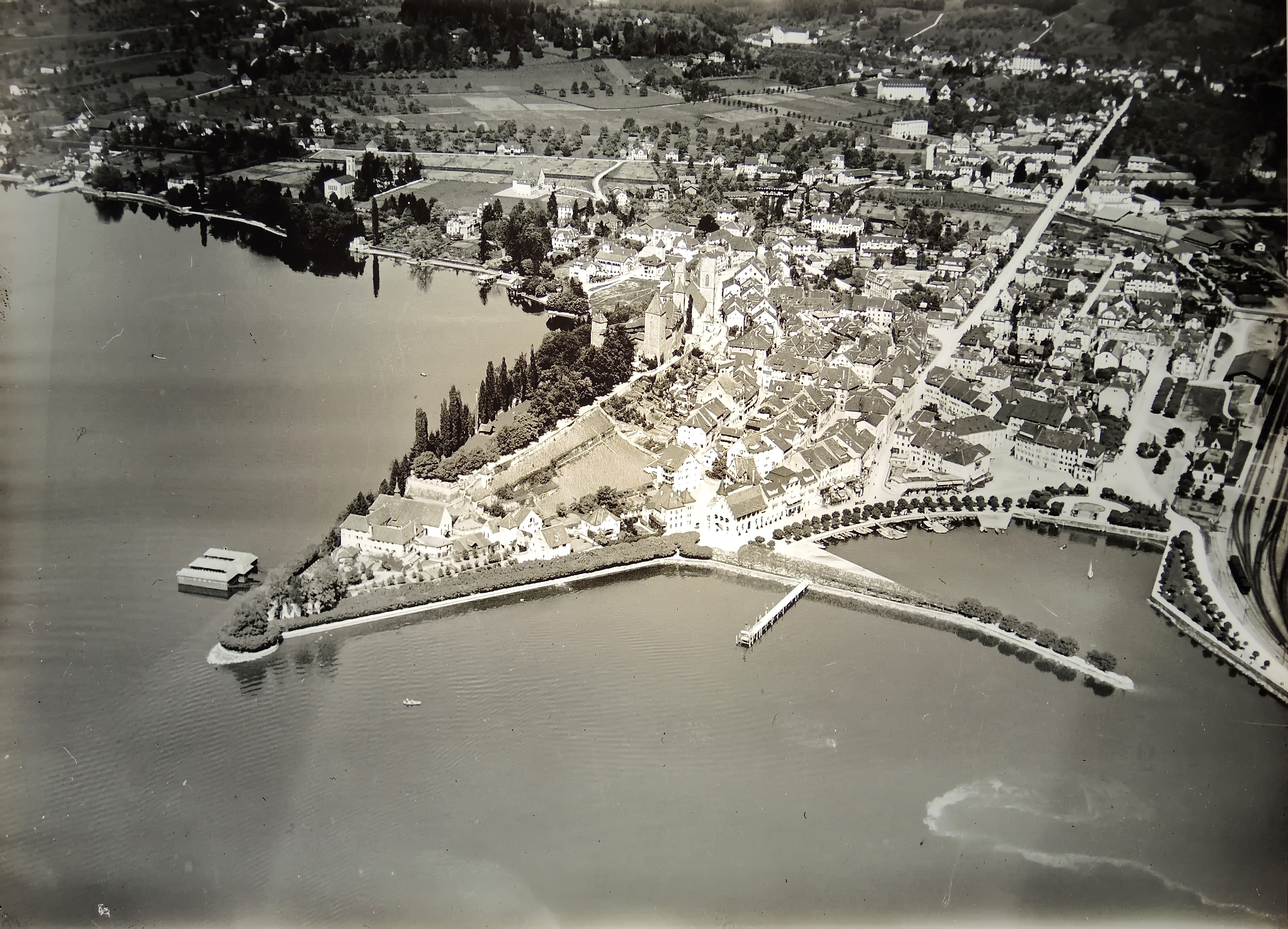 Collection of the Stadtmuseum in Rapperswil (Switzerland)